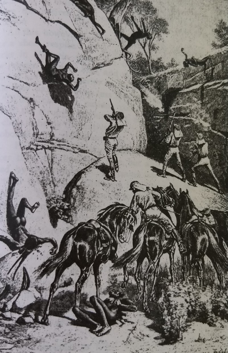 Dispersal of Aboriginals by Native Police